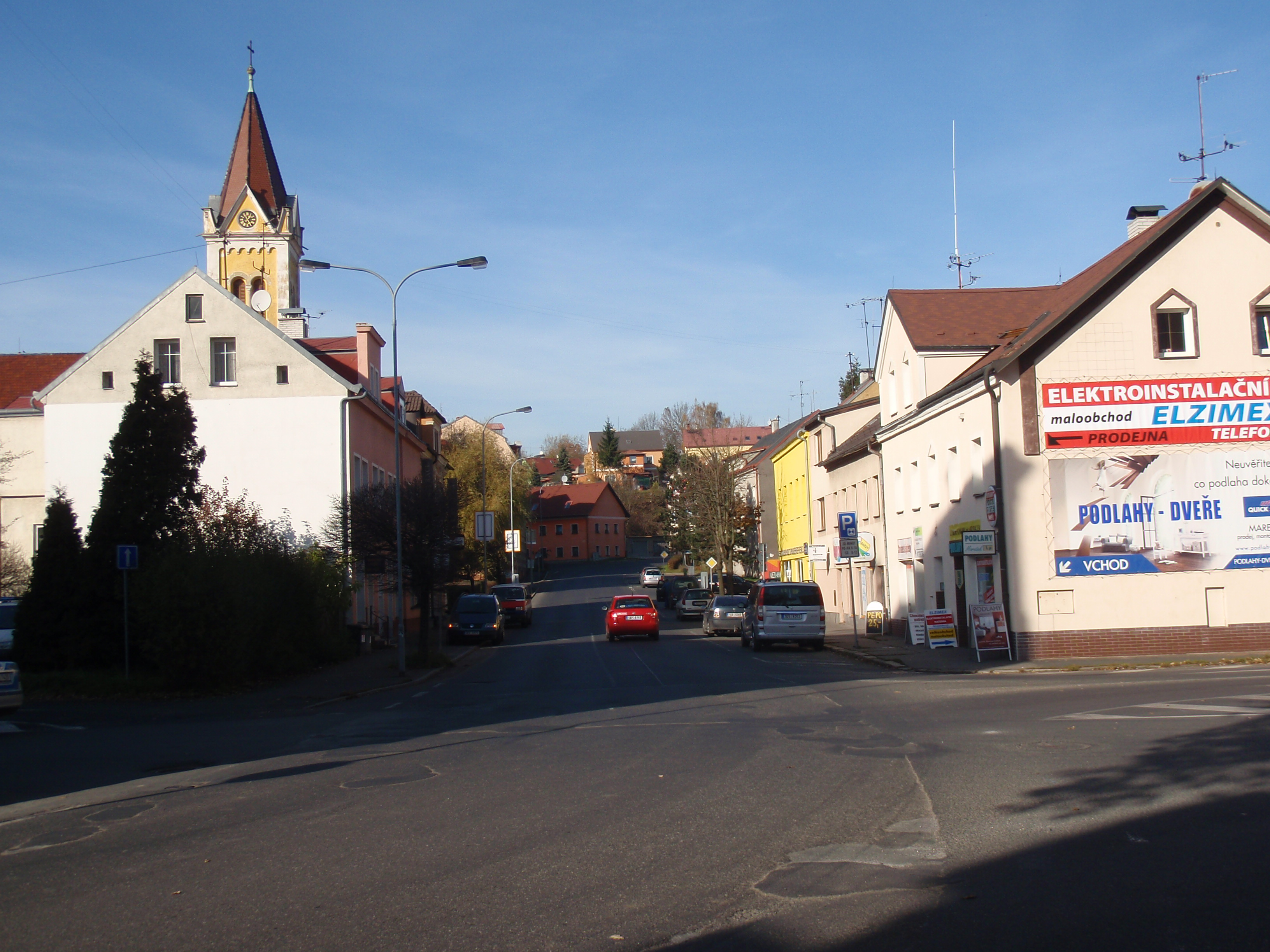 Intersection (road II/220)